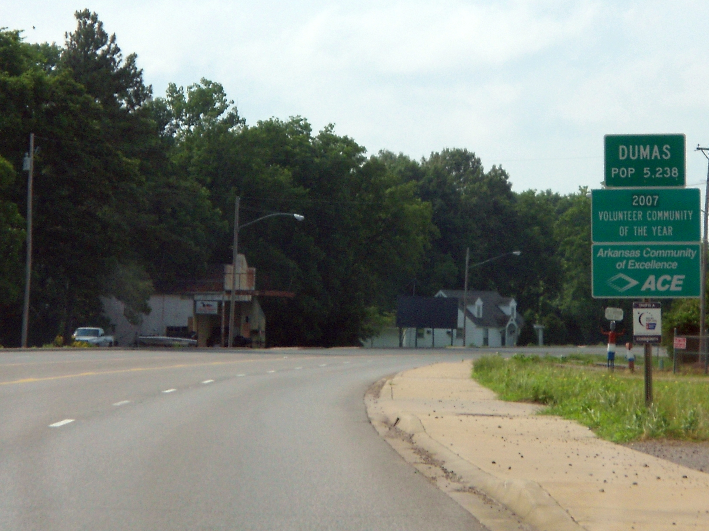 Welcome sign to Dumas, Arkansas on US 65 southbound